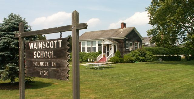 The last one-room school in New York State at Wainscott, New York. Photo by poster in July 2007.